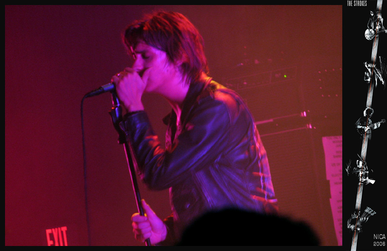 Julian Casablancas with The Strokes